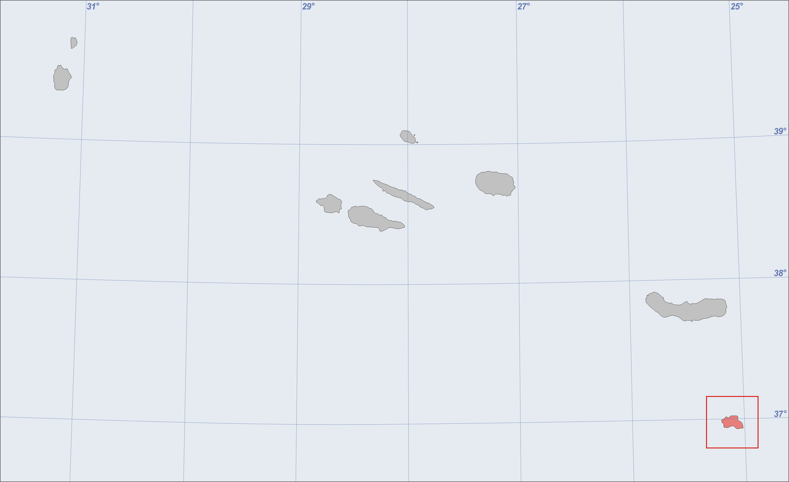 Position of Santa Maria Island, Azores drawn by varp